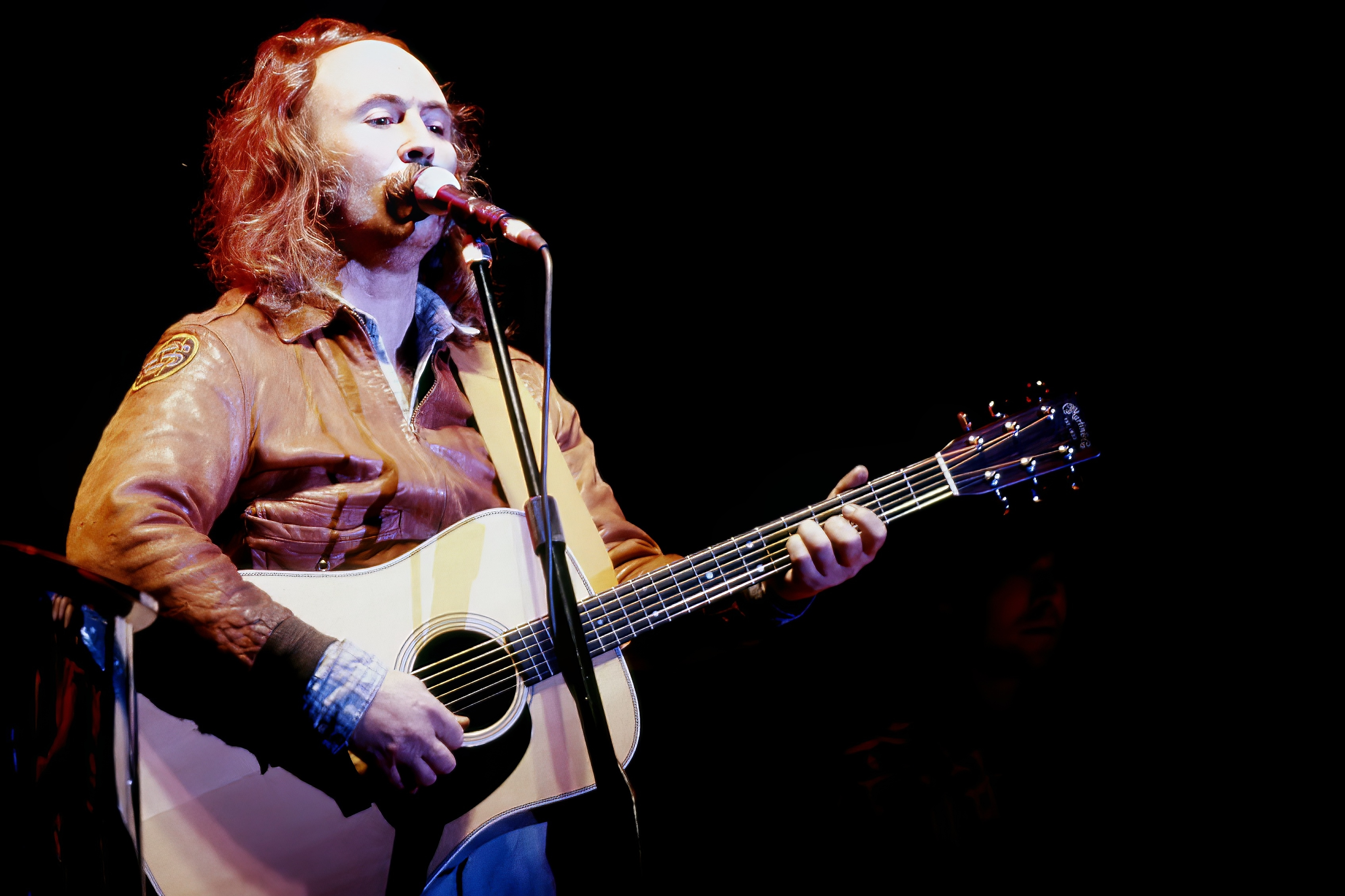 David Crosby of "Crosby, Stills and Nash" pictured on June 17 1983 during an open-air festival in the "Georg-Melches-Stadion" (a soccer stadium) in Essen, Germany.